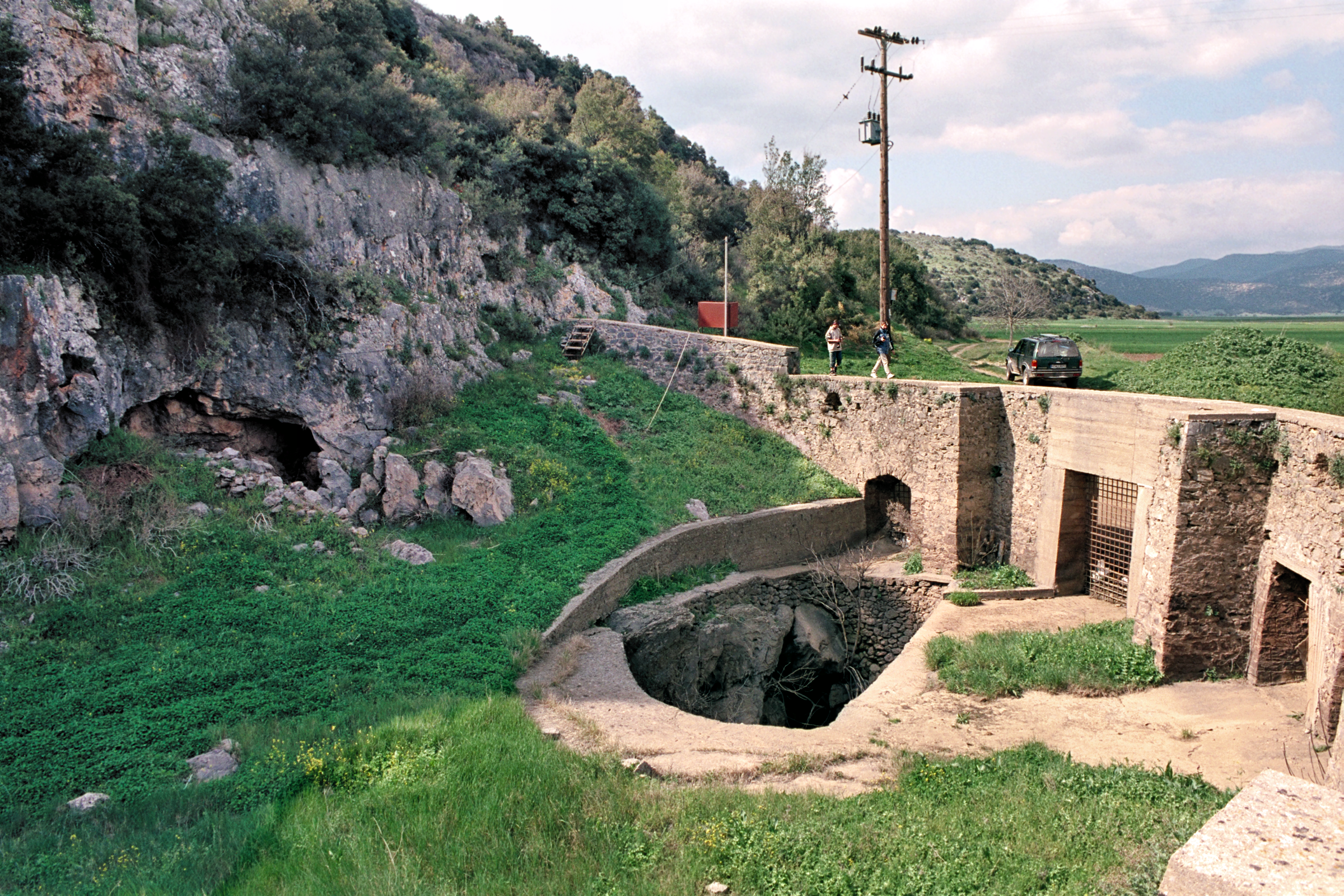 Ponor at the Kapsia cave (Peloponnese, Greece)